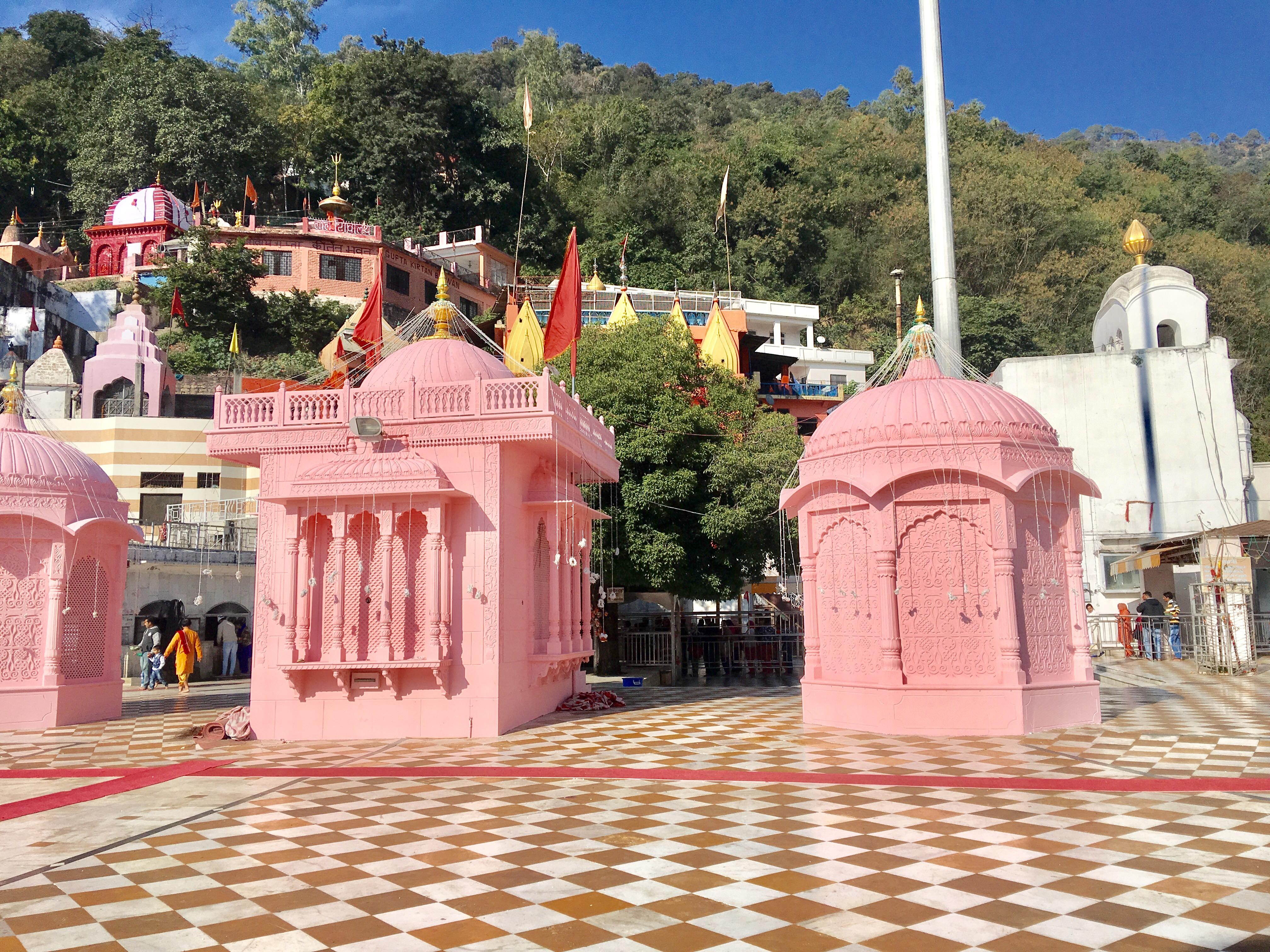 Jawalamukhi Devi Temple in Jawalamukhi, Himachal Pradesh